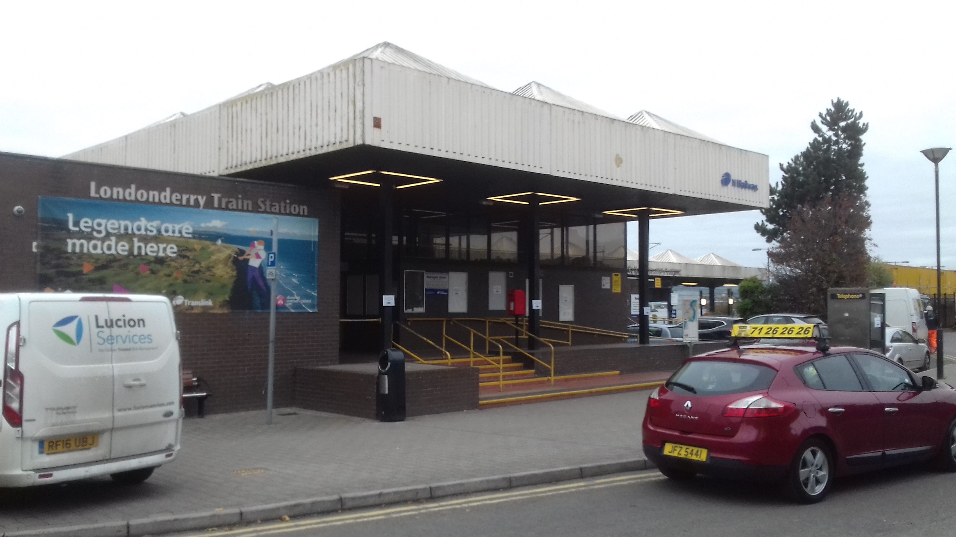 The frontage of the railway station that served Londonderry from 1980 to 2019.